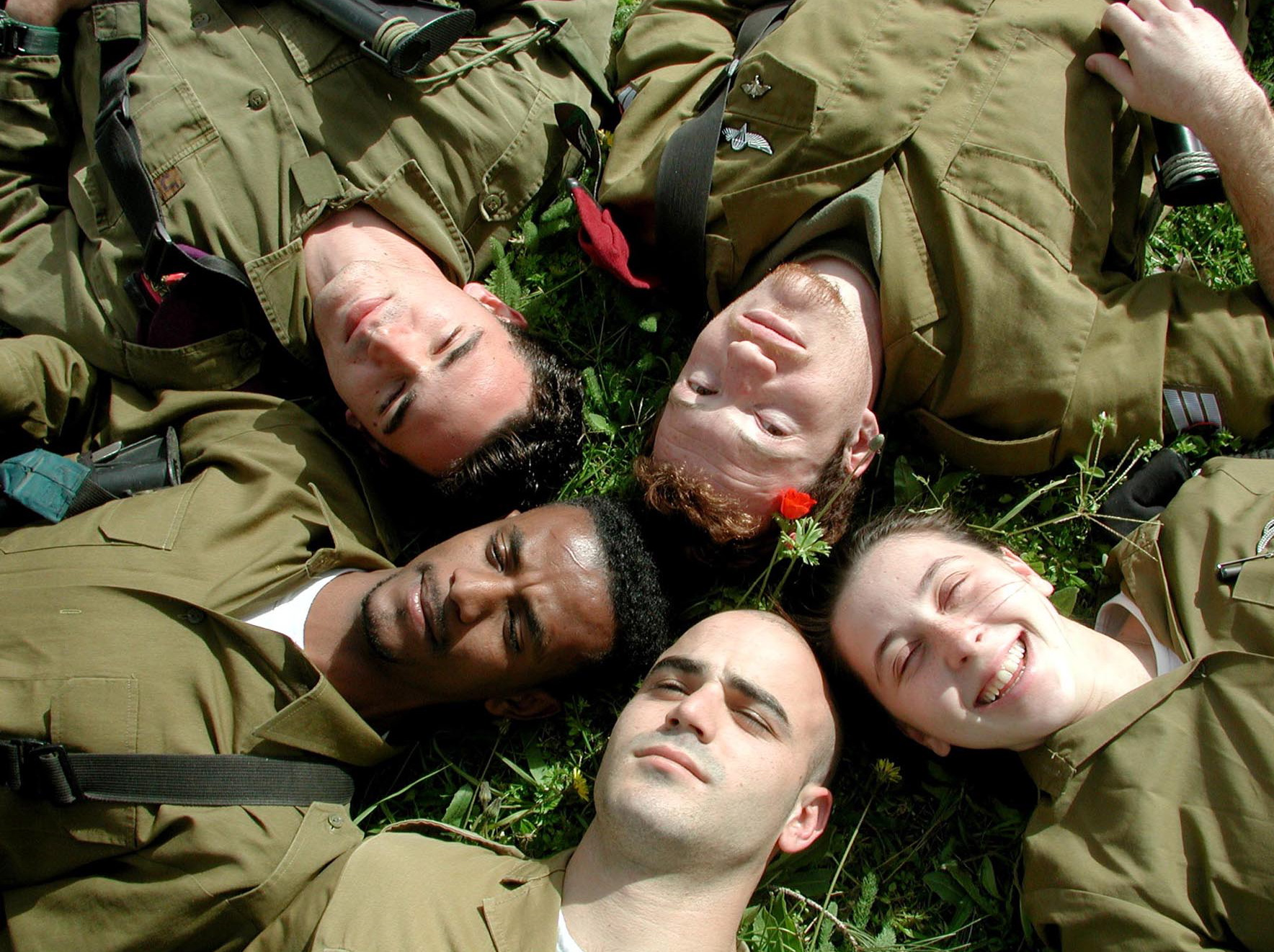 Soldiers take a break while participating in the "Diplomas for Combat Troops" program. Moments before being released from the army these soldiers have the opportunity to focus on completing their high school degrees. The course "Diplomas for Combat Troops" is funded by the LIBI fund and is in cooperation with the Education Ministry and the IDF.